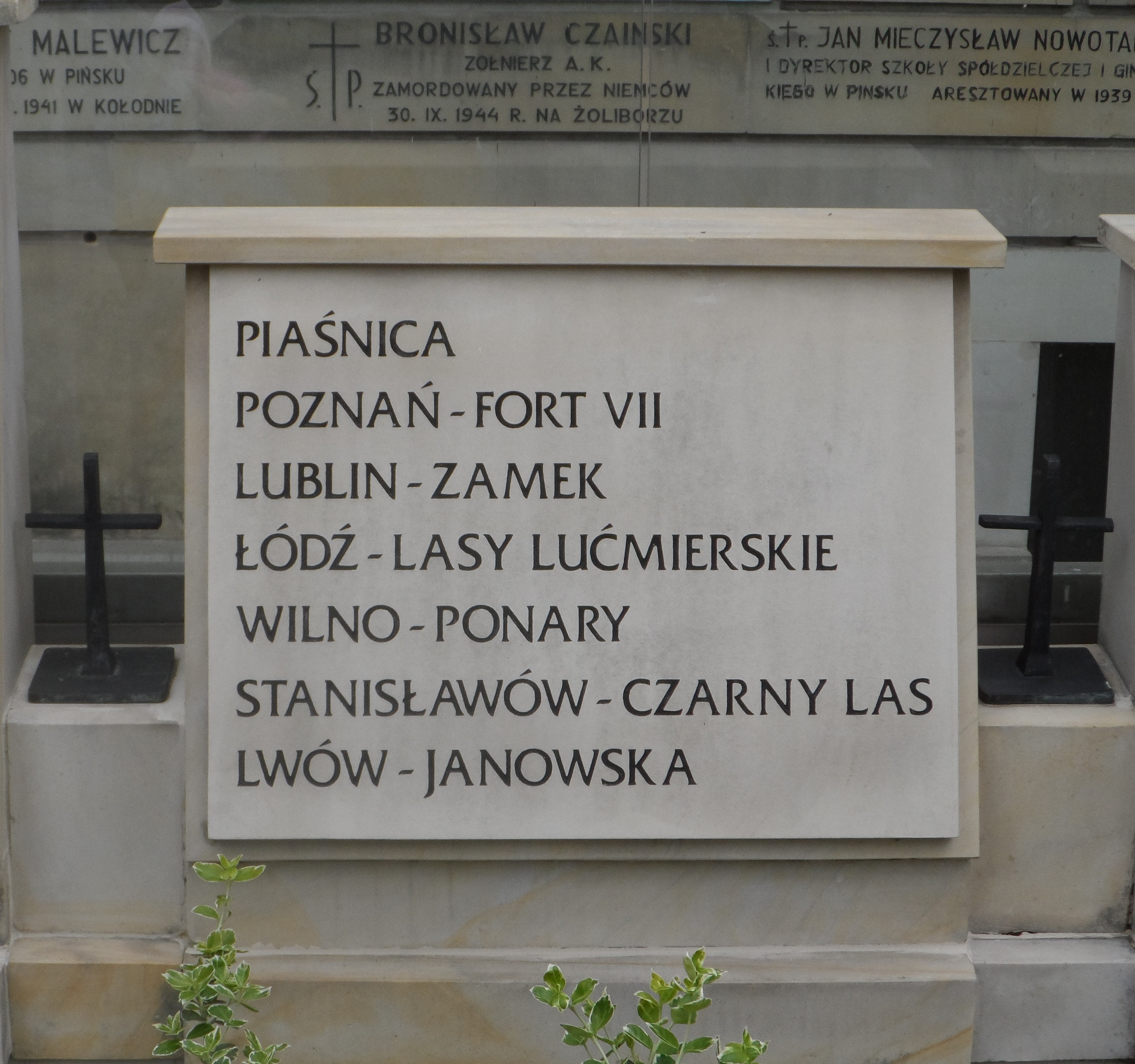 Plaque near the wall of the St. Stanislaus Kostka Church in Warsaw commemorating the victims of the massacres conducted by Nazi-German occupants in the years 1939–1945.